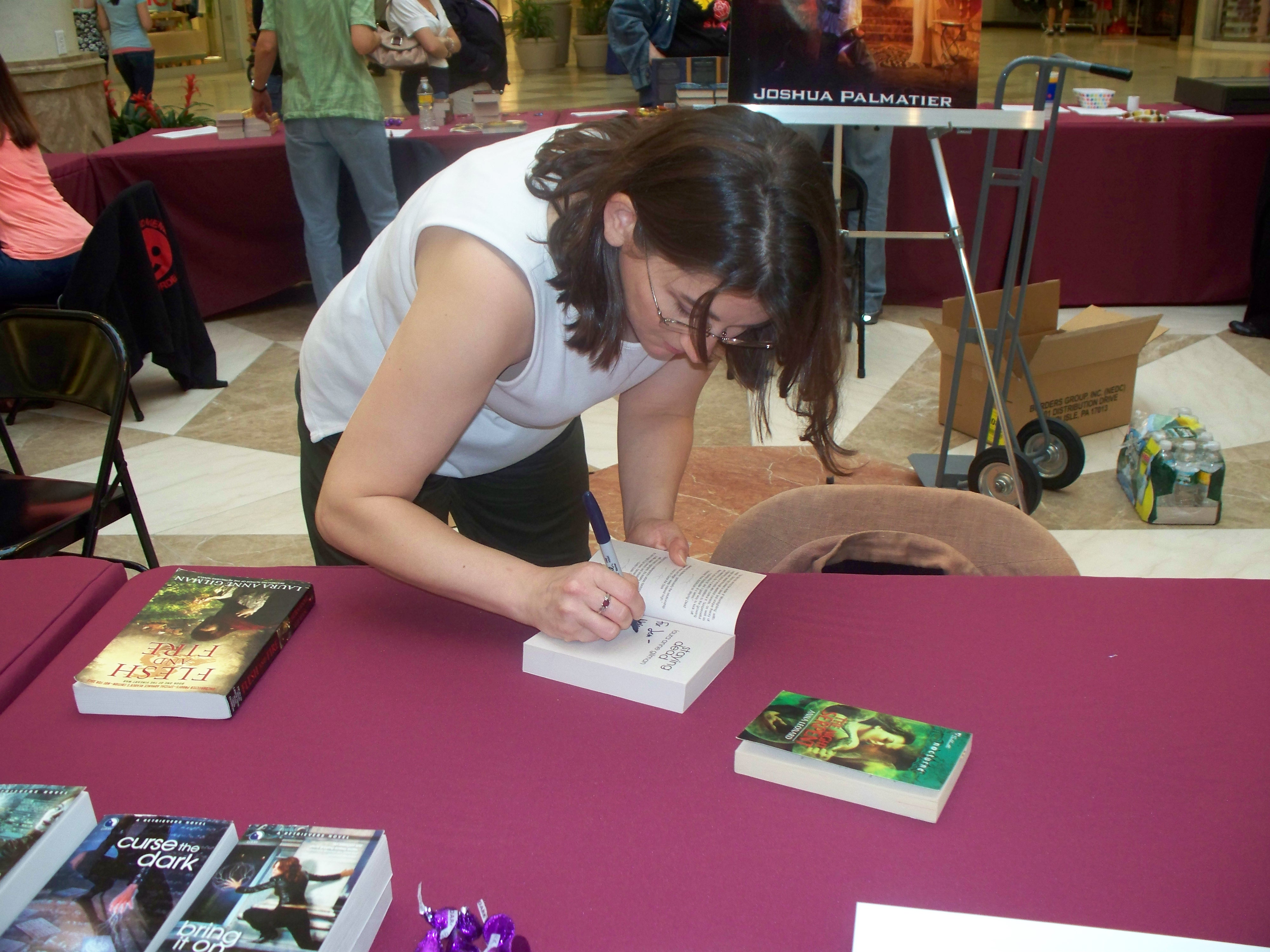 picture taken June 20th, at Oakdale Mall in Johnson City, NY.